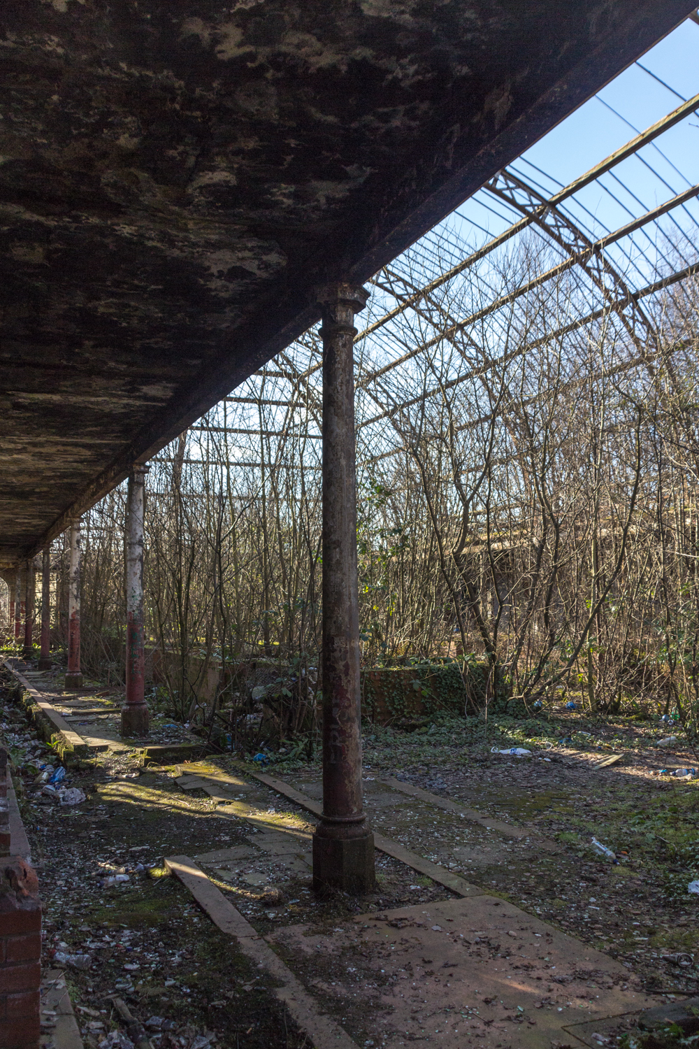 Winter Gardens